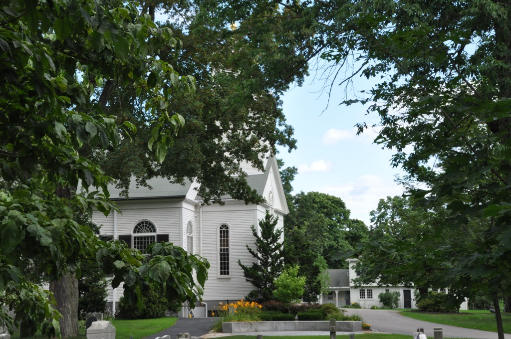 A scene on Concord Street in the Newton Lower Falls Historic District of Newton, Massachusetts.